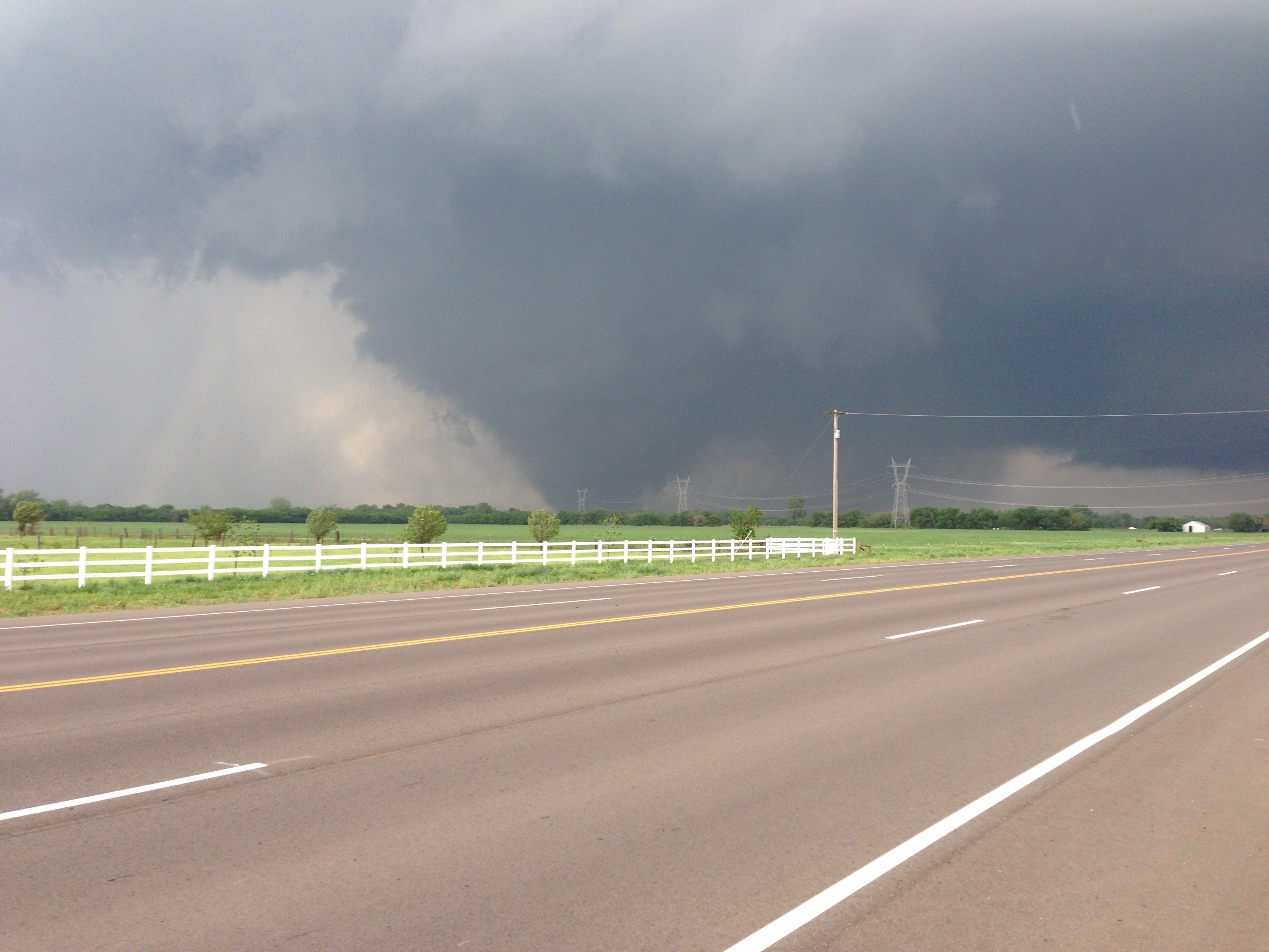 The 2013 Oklahoma City tornado as it passed through south Oklahoma City.